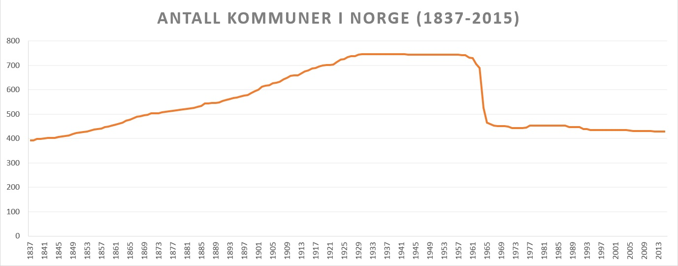 Since 1837 Norway has had laws describing the political entities of municipalities (kommune). There has been several merges and divides and changes of boundaries between the municipalities, and in this diagram it is shown the development in the numbers of municipalities at any given year from 1837 until 2015.